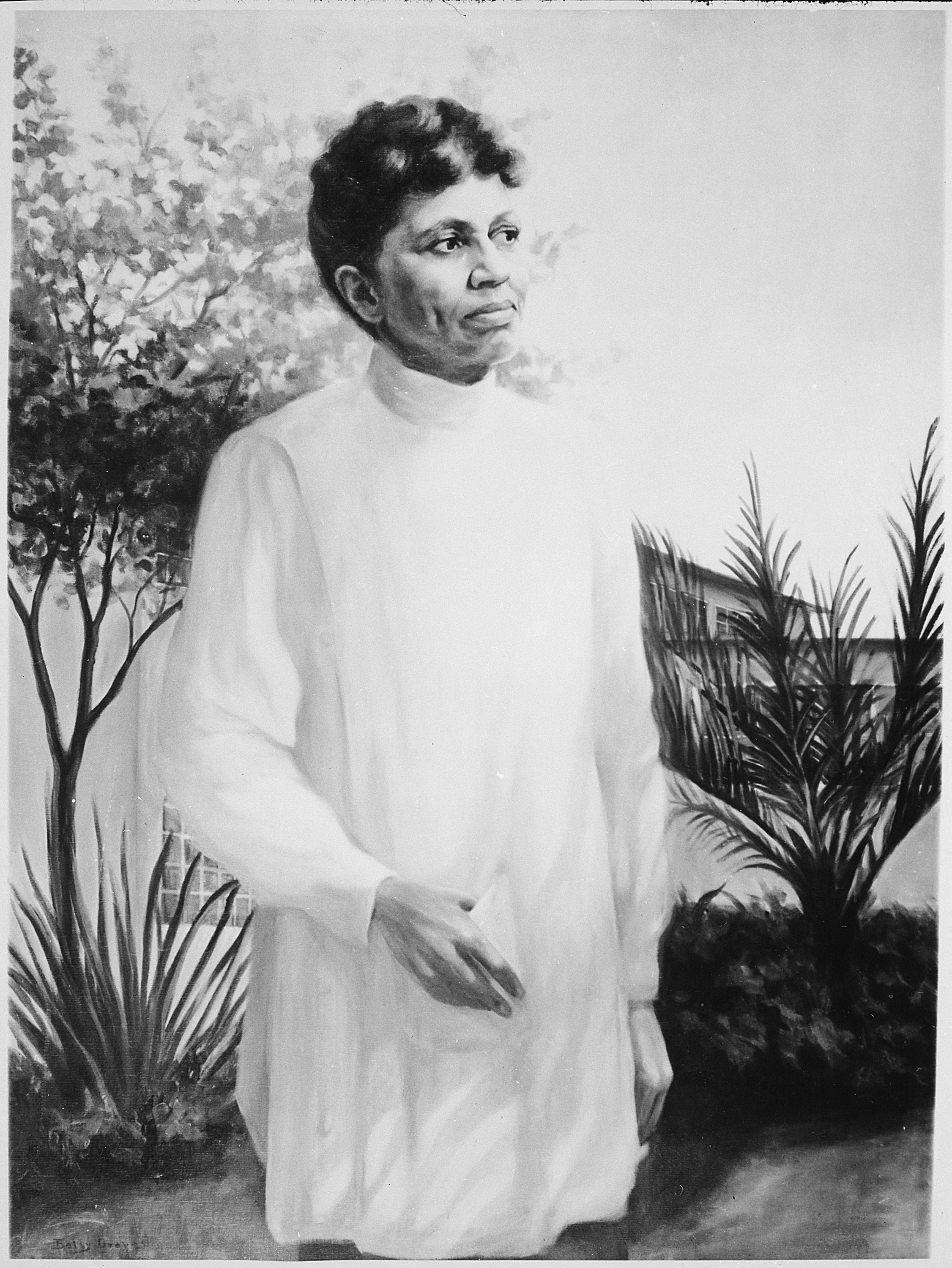 General notes: Painting